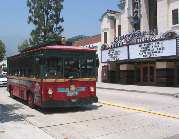 Tourist trolley in Monrovia, California